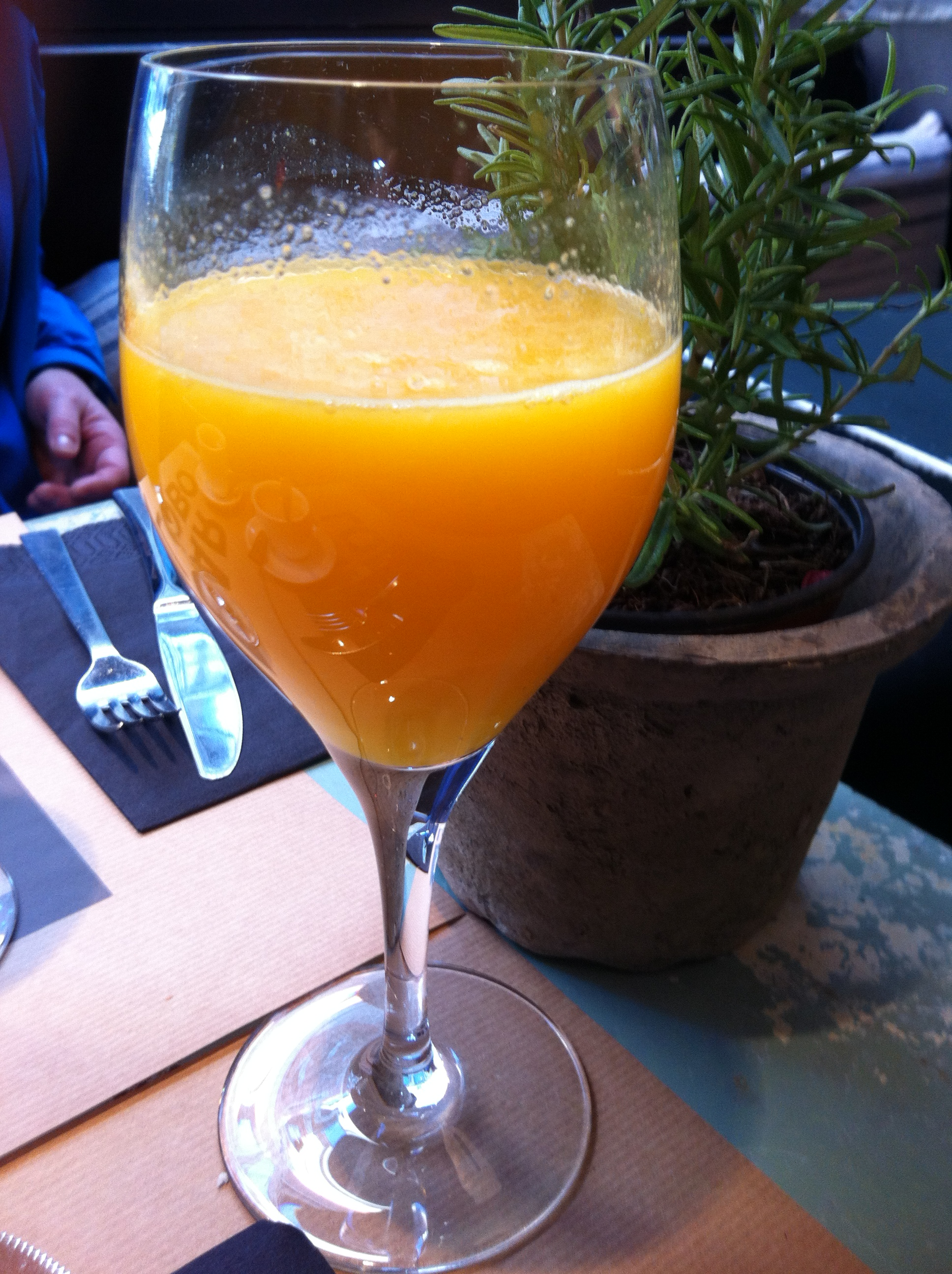 A glas of freshly squeezed orange juice standing on a table.